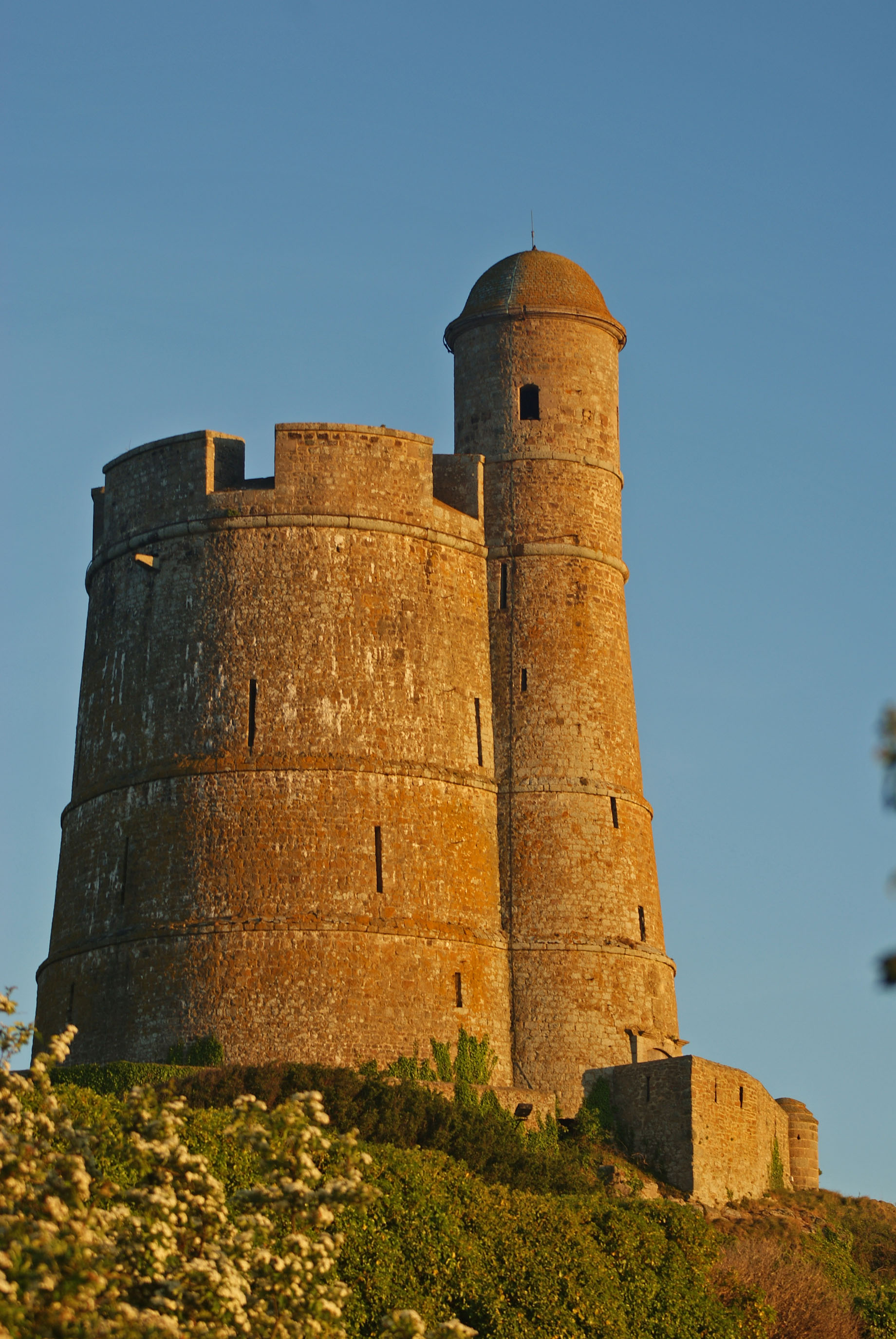 Tour Vauban of the La Hougue fortification (France, Normandy)